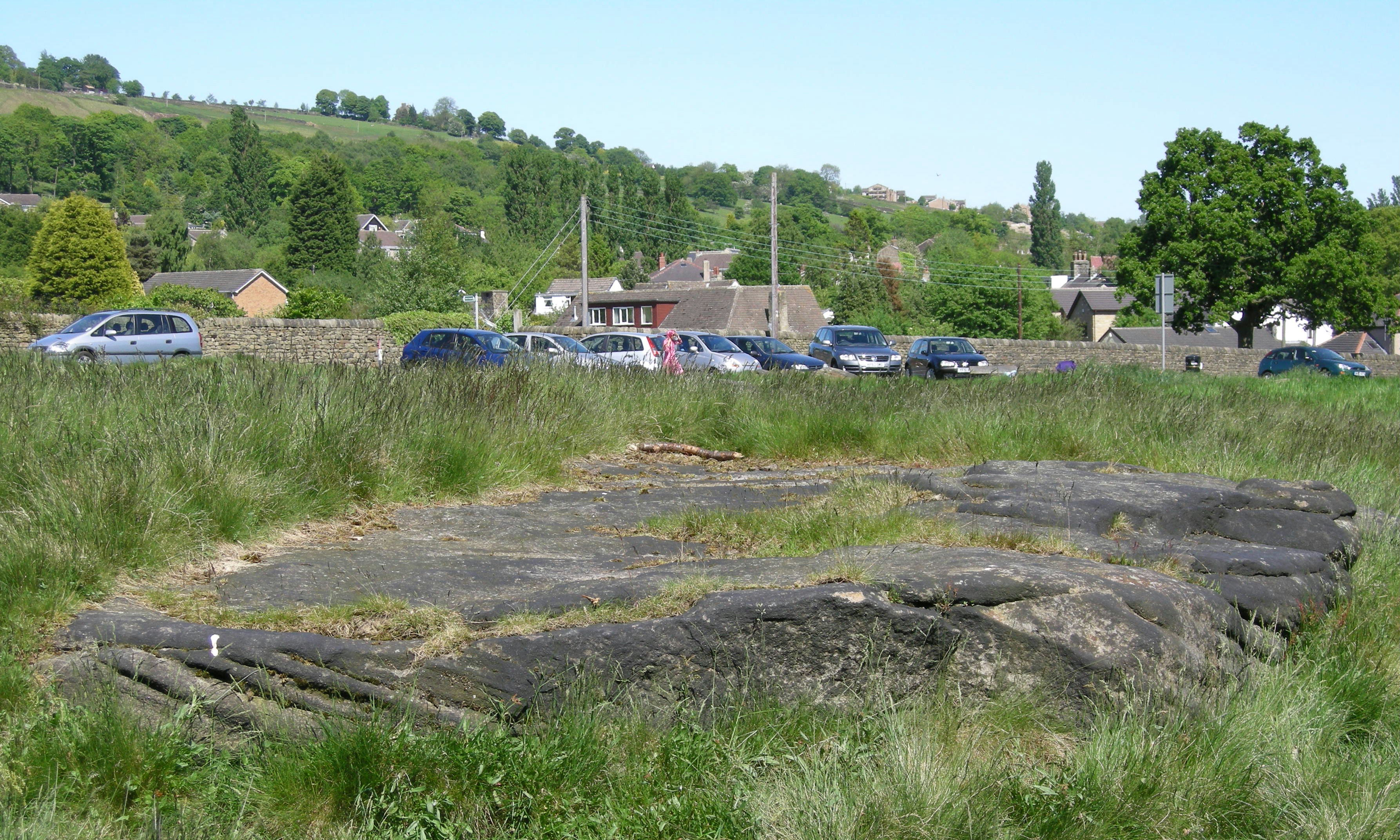 Baildon Moor and parking, opposite Bracken Hall Countryside Centre and Museum, Baildon, West Yorkshire, England.